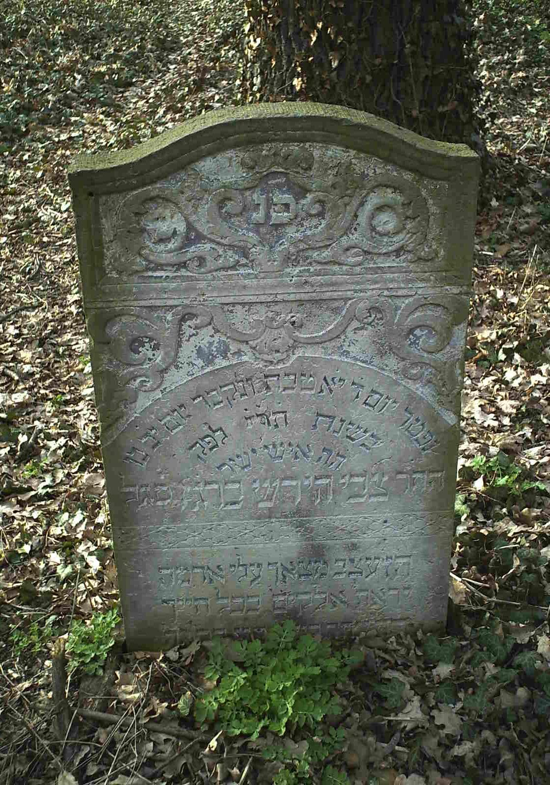 Gravestone with an quite sophisticated ornament. Jewish cemetery, Skwierzyna (lubuskie voivodship), Poland.